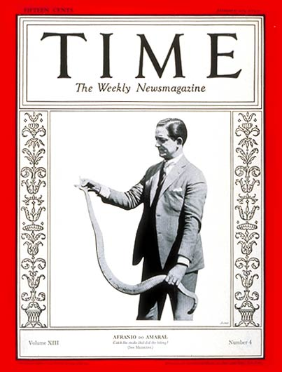 Time Magazine, Jan. 28, 1929This cover shows the brazilian scientist Afranio do Amaral.